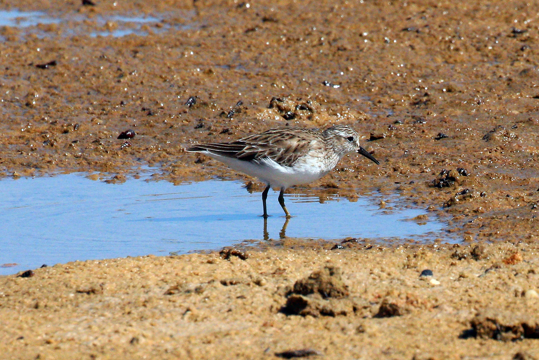 Least sandpiper (Calidris minutilla), Cuba